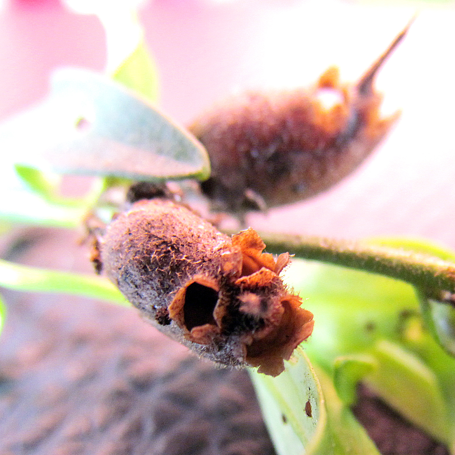 Antirrhinum majus capsule